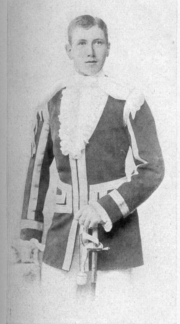 Future German Chancellor Franz von Papen as a young page at the Imperial Court in Berlin in 1897.